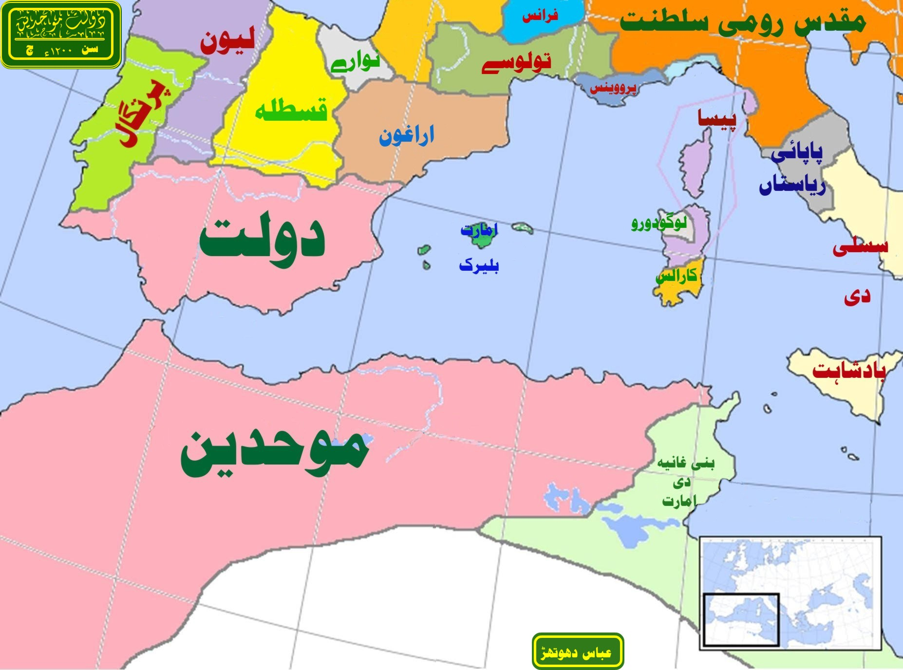 Map of Almohad Empire (Africa) in Punjabi.